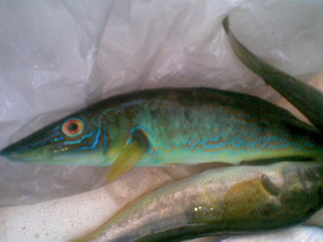 Haletta semifasciata collected in Albany, Western Australia.